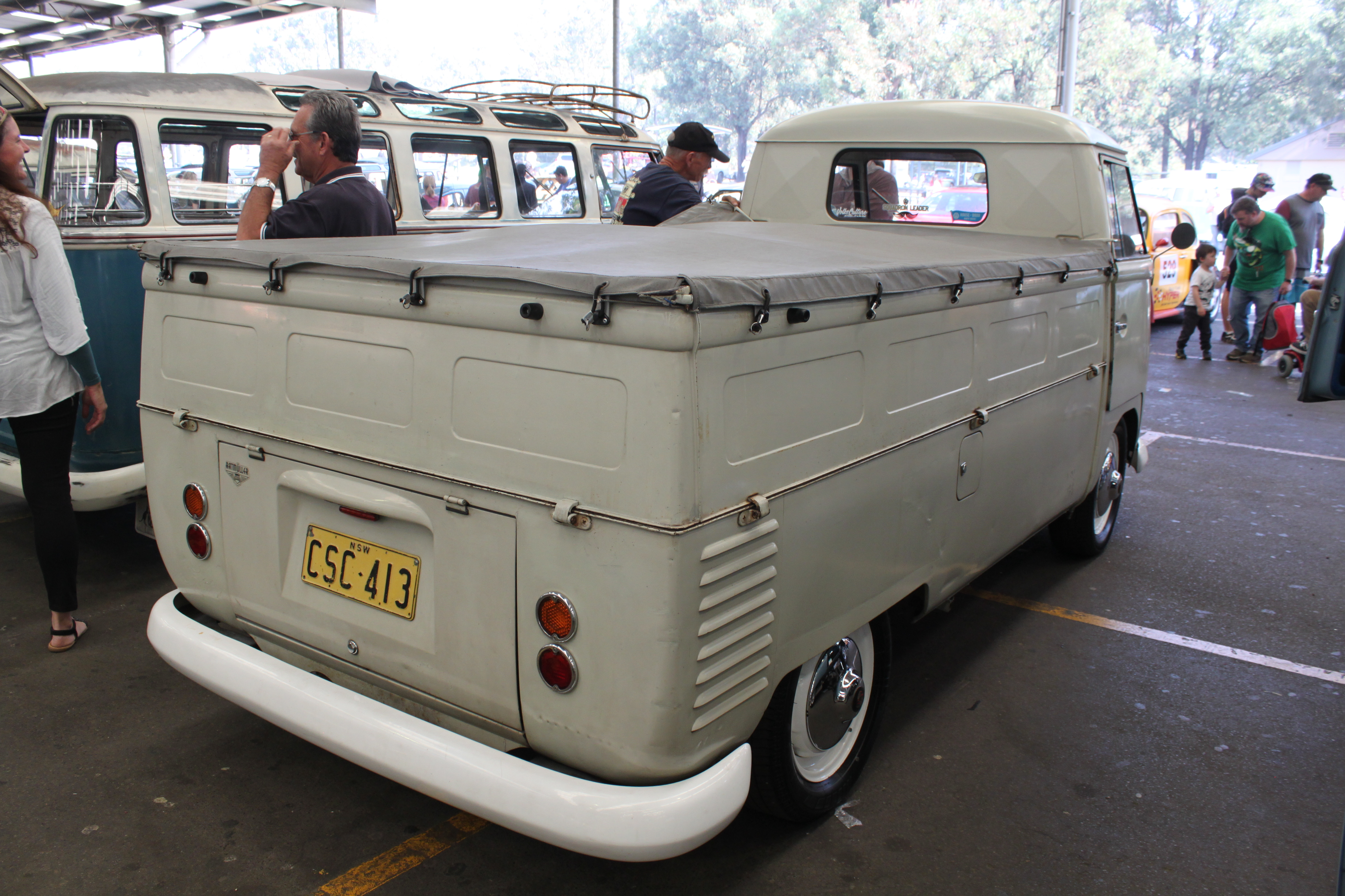 Volkswagen Nationals, Fairfield Showground, NSW May 2016